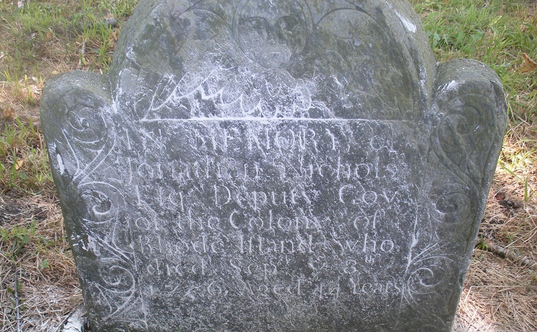 Grave marker of colonial Rhode Island deputy governor Jonathan Nichols, Jr., Nichols-Hassard Burial Ground, Portsmouth, Rhode Island